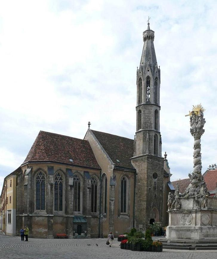 Goat Church